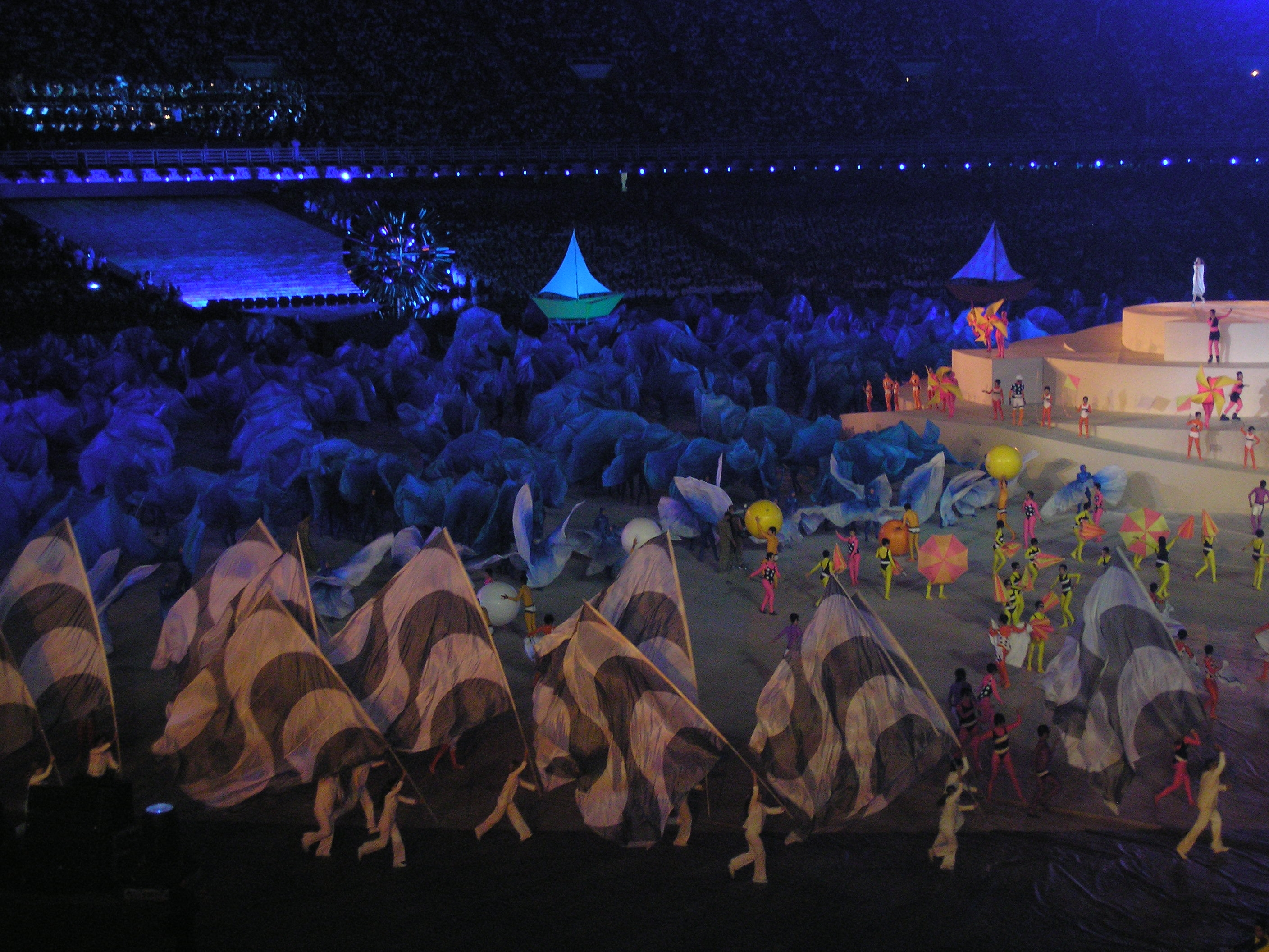 Opening Ceremony of Rio 2007 Pan-American Games